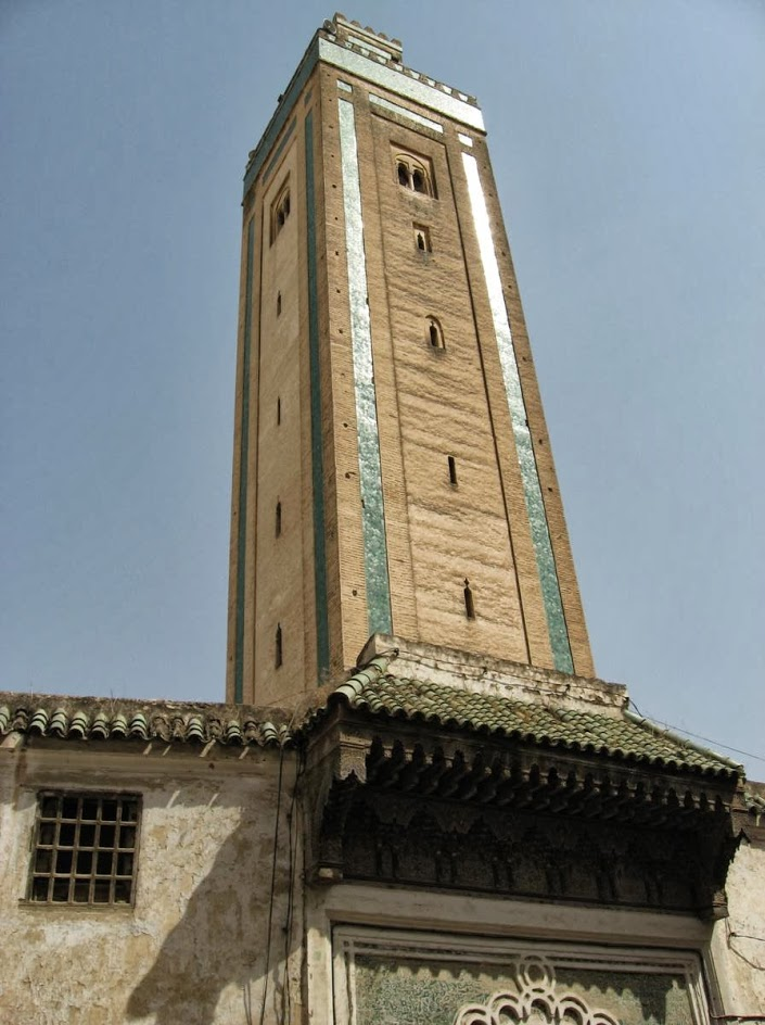 The city of Fes 4